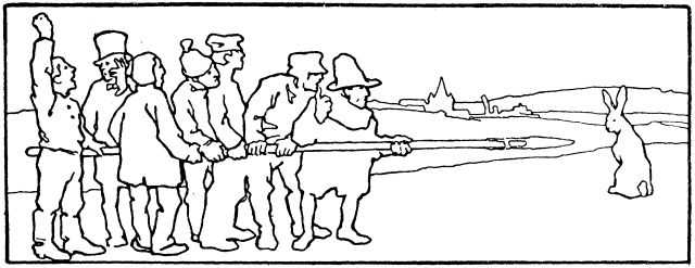 Illustration by Otto Ubbelohde to the fairy tale The Seven Swabians